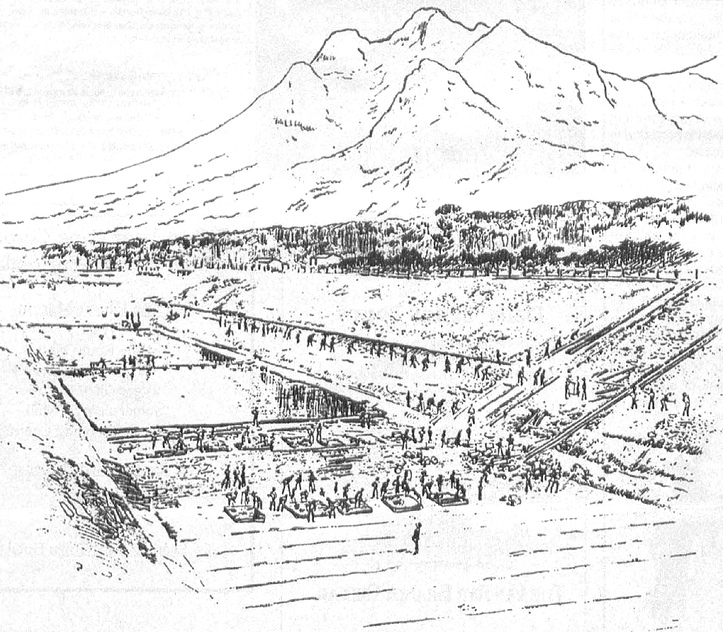 A sketched drawing of the construction of the Molteno Reservoir in Cape Town. 1878.